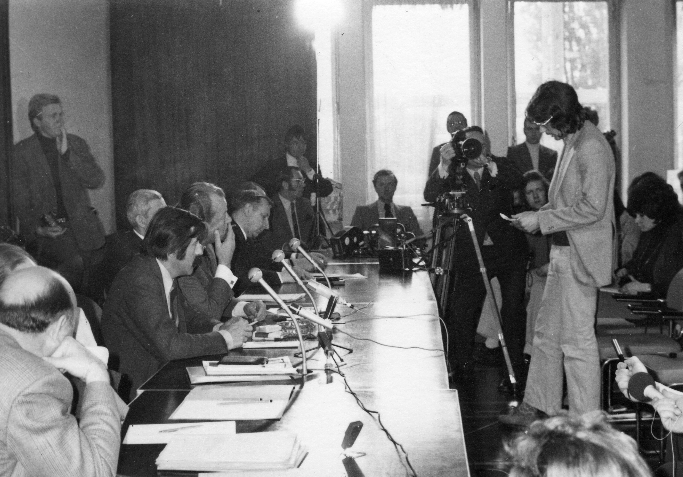 Youth Press Pressconference with the German Chancellor Willy Brandt, 1972